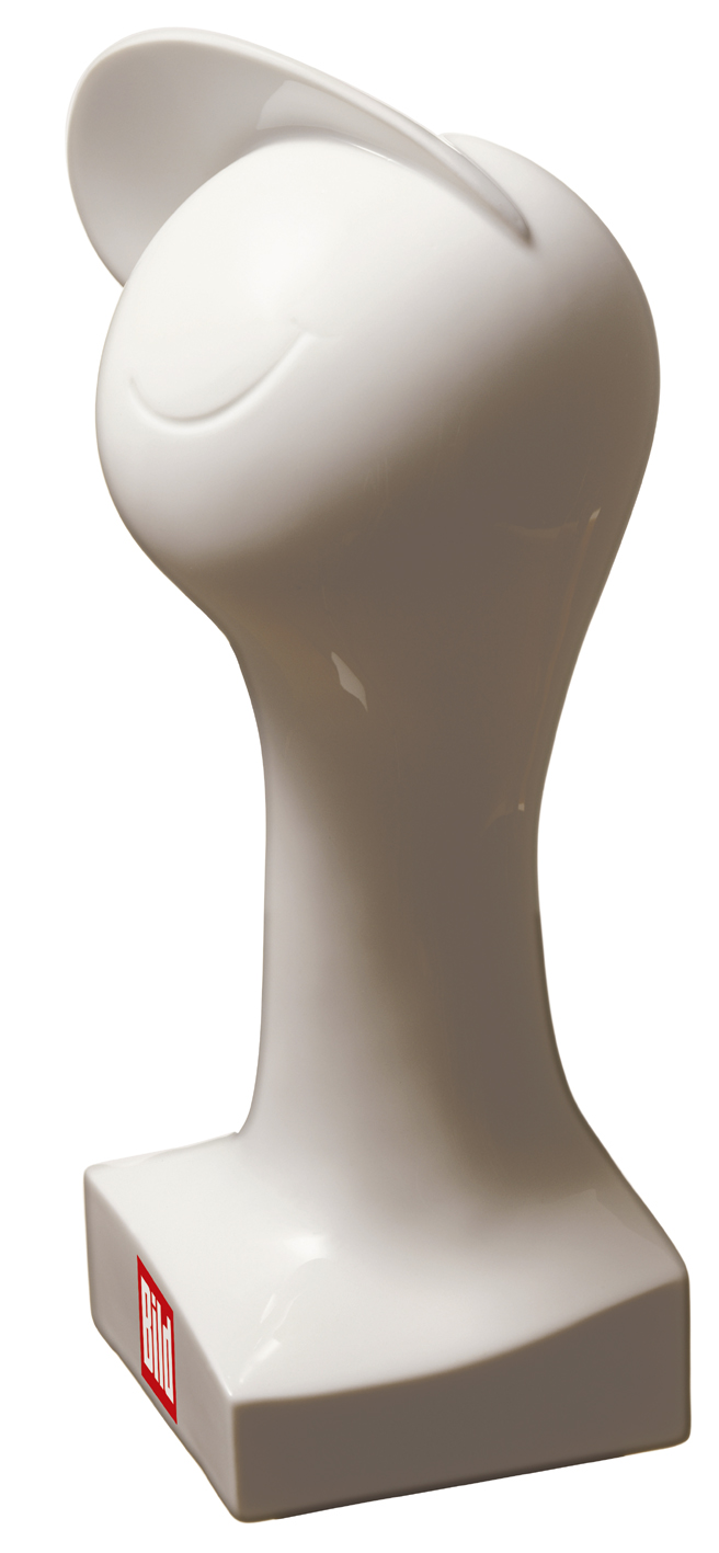 Osgar award of the german Bild-Zeitung